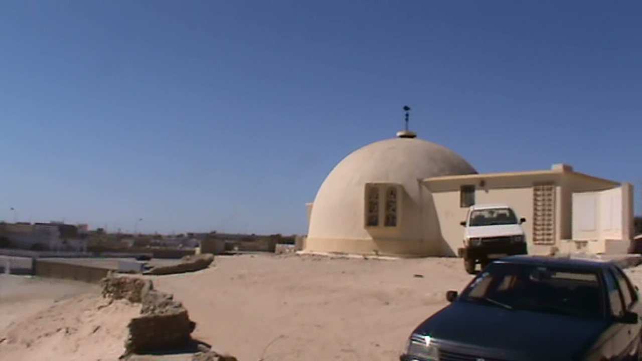 C.I.S.S. humanitarian tour to Mauritania